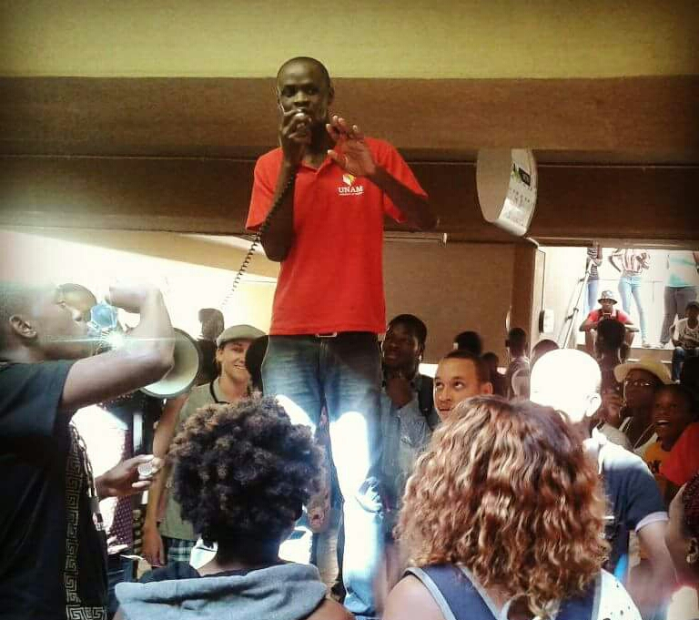 Kalimbwe speaking at a youth gathering in 2016